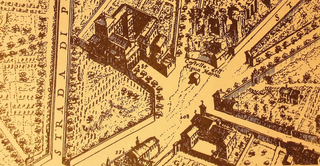 Villa Palombara by Giovanni Battista Falda (1676)